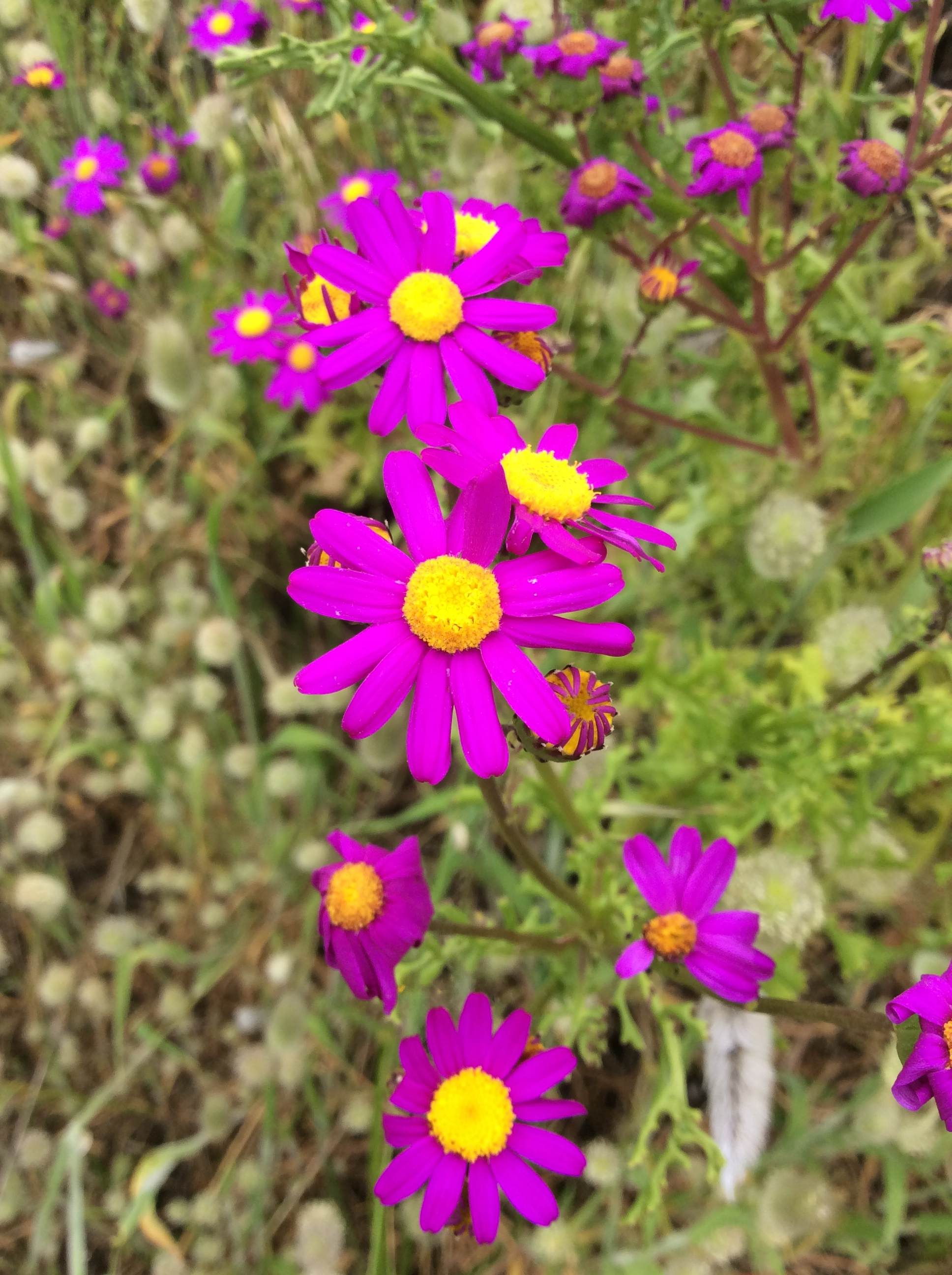 Senecio elegans, Yallingup, Western Australia